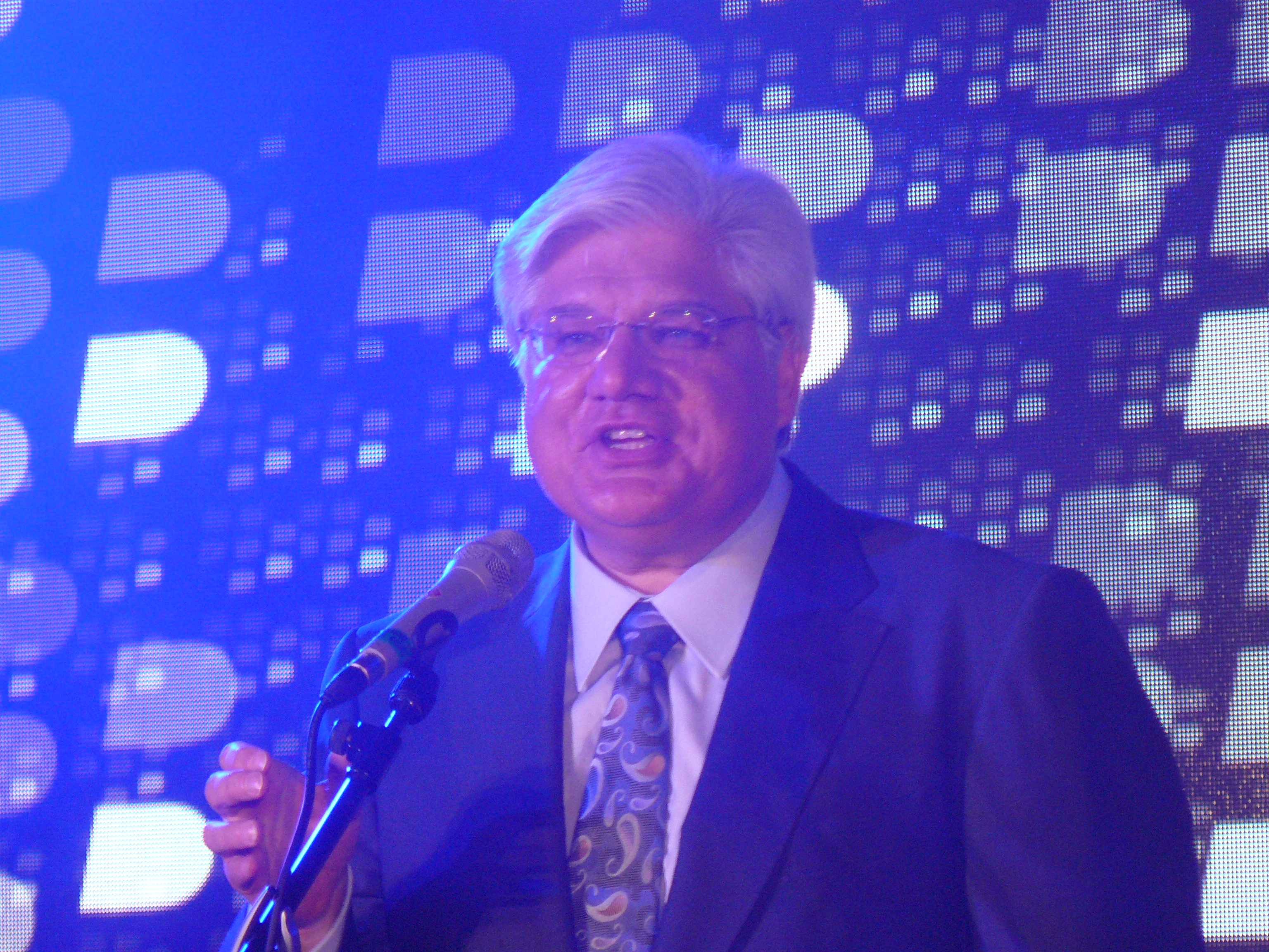 At BlackBerry Bold Launch in London introducing the band: The Feeling